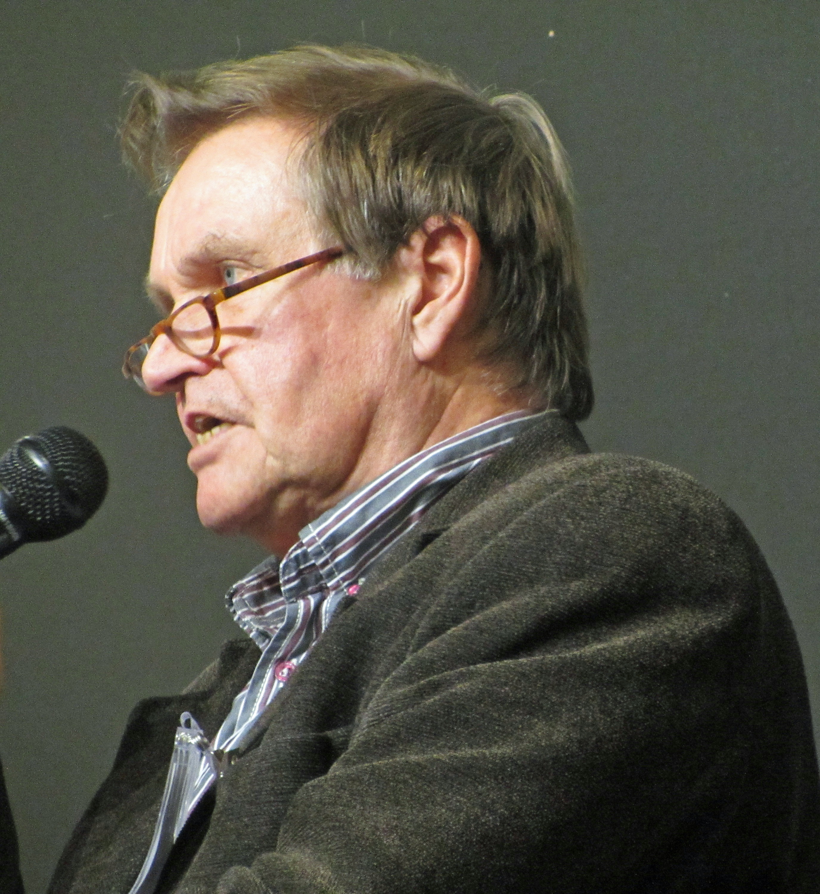 Finnish writer Hannu Mäkelä at Helsinki Book Fair 2012